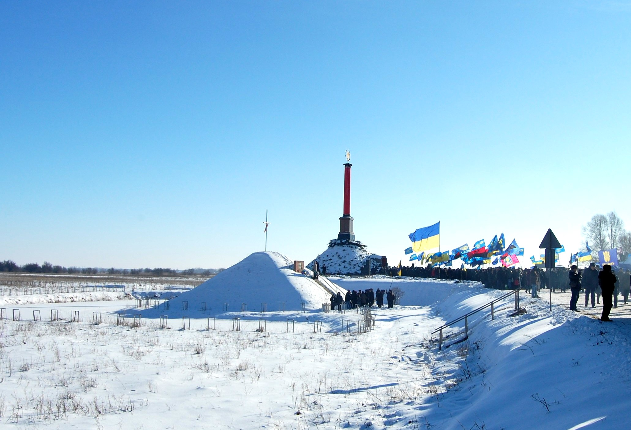 Monument and symbolic grave at the Kruty Heroes Memorial